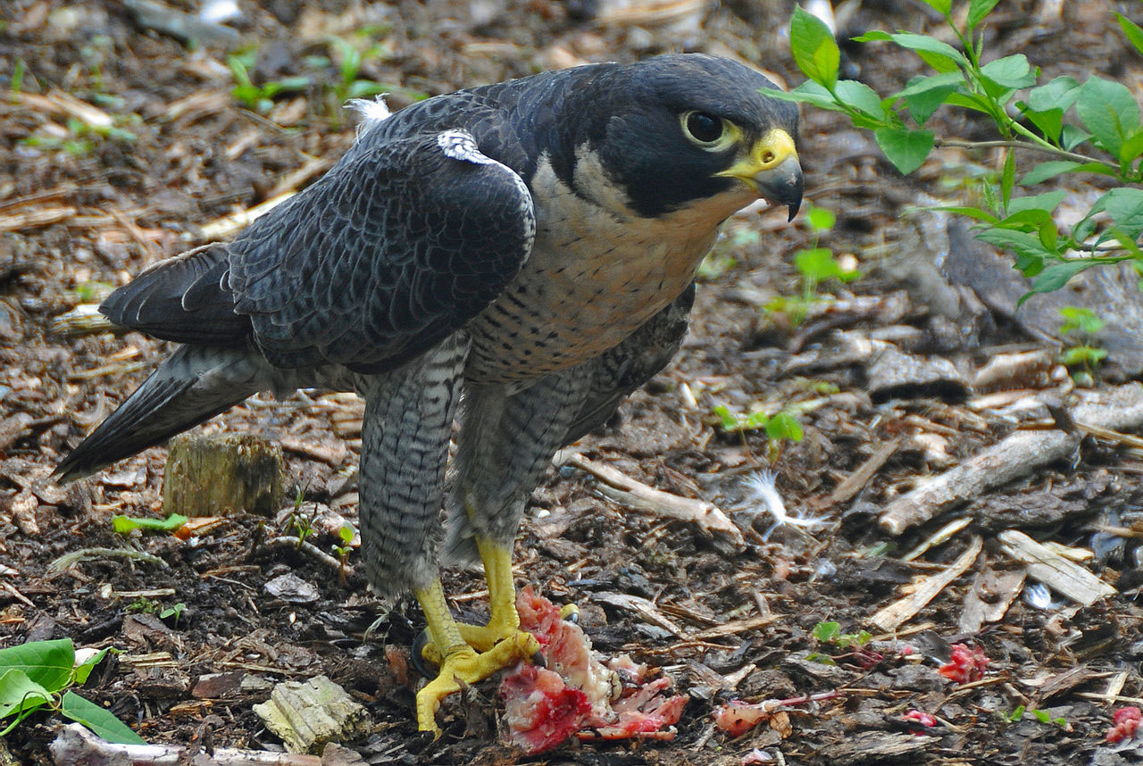 A captive Peregrine Falcon eating at Shubenacadie Provincial Wildlife Park in Nova Scotia, Canada.